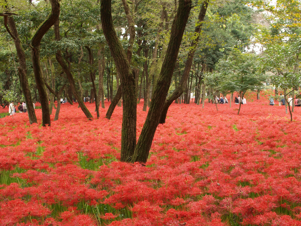 Spider Lily (Lycoris radiata) at Kincyakuda, Saitama Prefecture, Japan